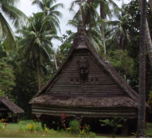 Haus Tambaran in Sepik River Region of Papua New Guinea.